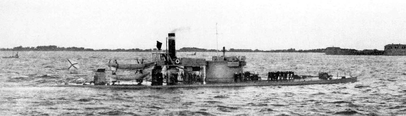 Imperial Russian turret armour-clad boat Strelets.